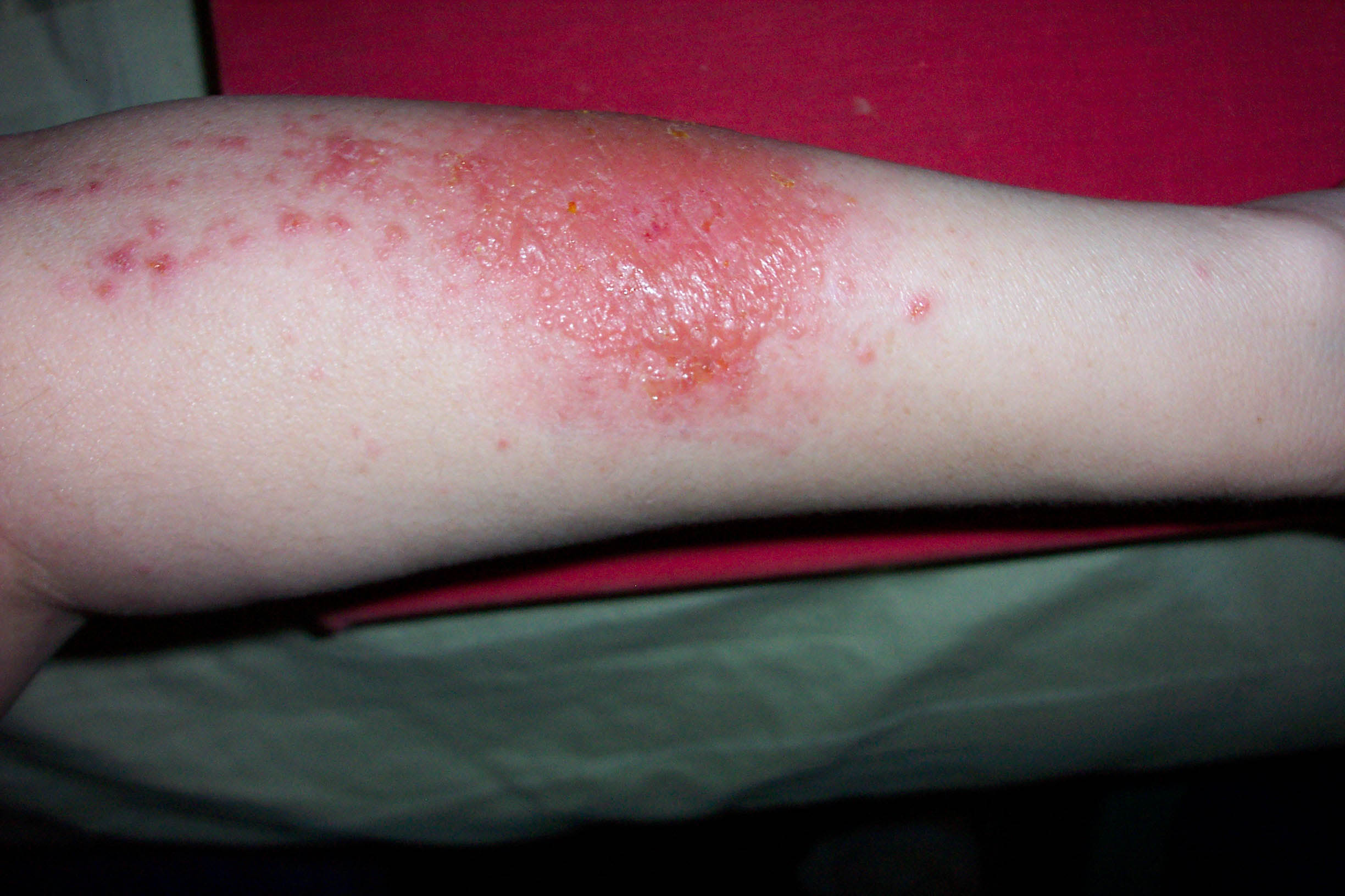 Public Domain, I took this photo of my arm for public domain.